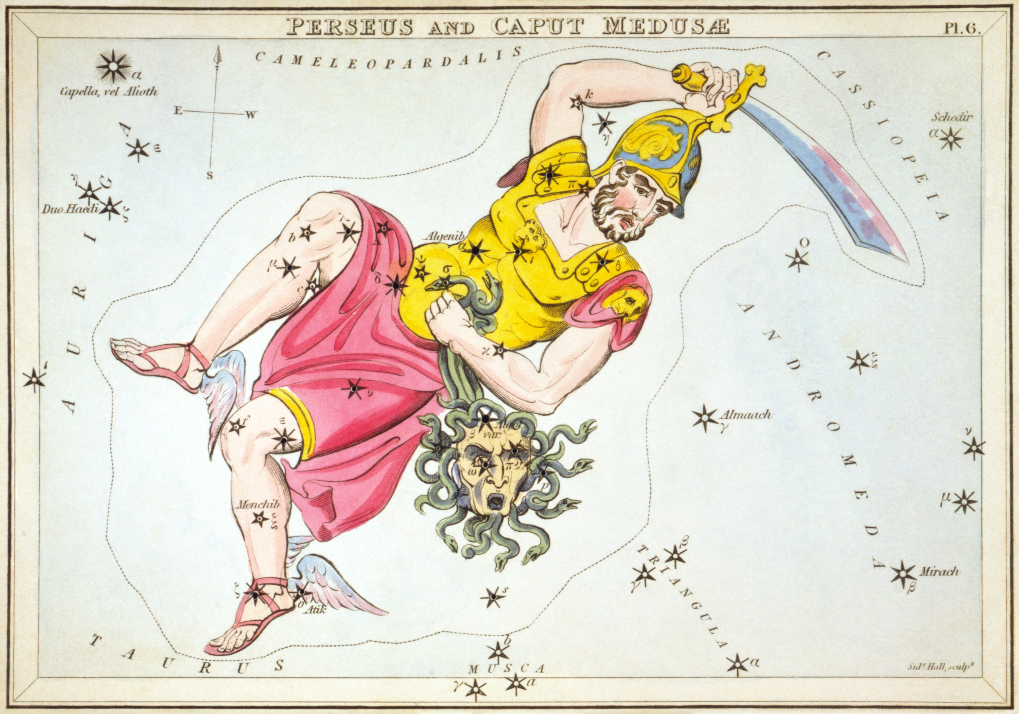 Perseus and Caput Medusæ, plate 6 in Urania's Mirror, a set of celestial cards accompanied by A familiar treatise on astronomy ... by Jehoshaphat Aspin. London. Astronomical chart showing Perseus holding bloody sword and the severed head of Medusa forming the constellation. 1 print on layered paper board : etching, hand-colored.